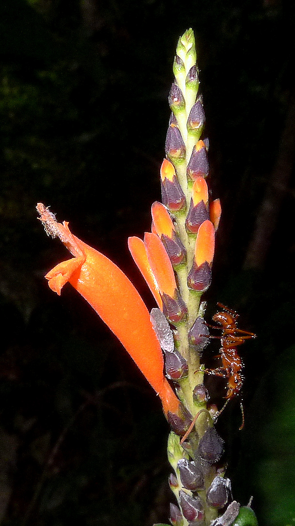 Aphelandra nitida Nees & Mart.